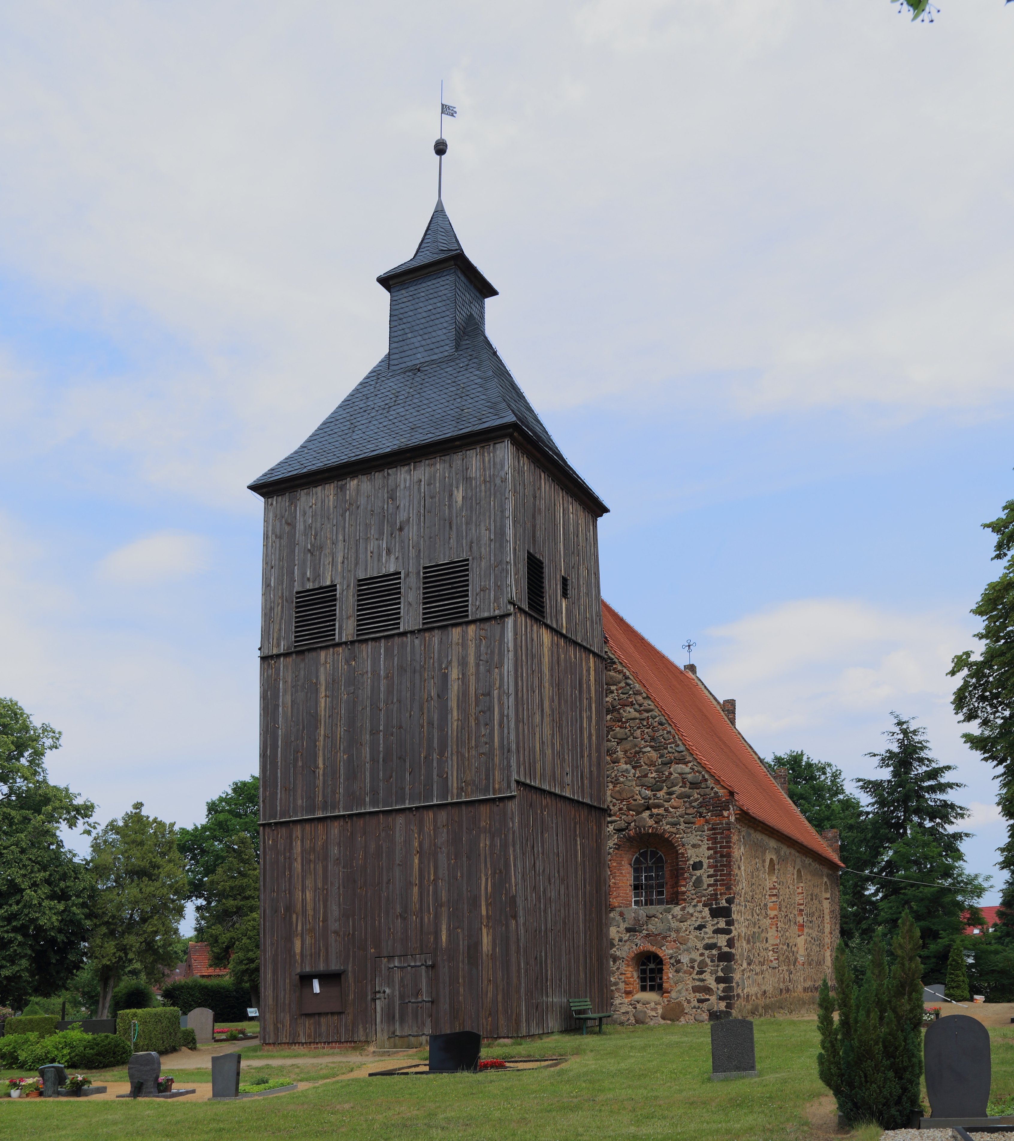 Protestant Village Church (Dorfkirche) of Frankendorf, district of Luckau, Landkreis Dahme-Spreewald, Brandenburg, Germany.